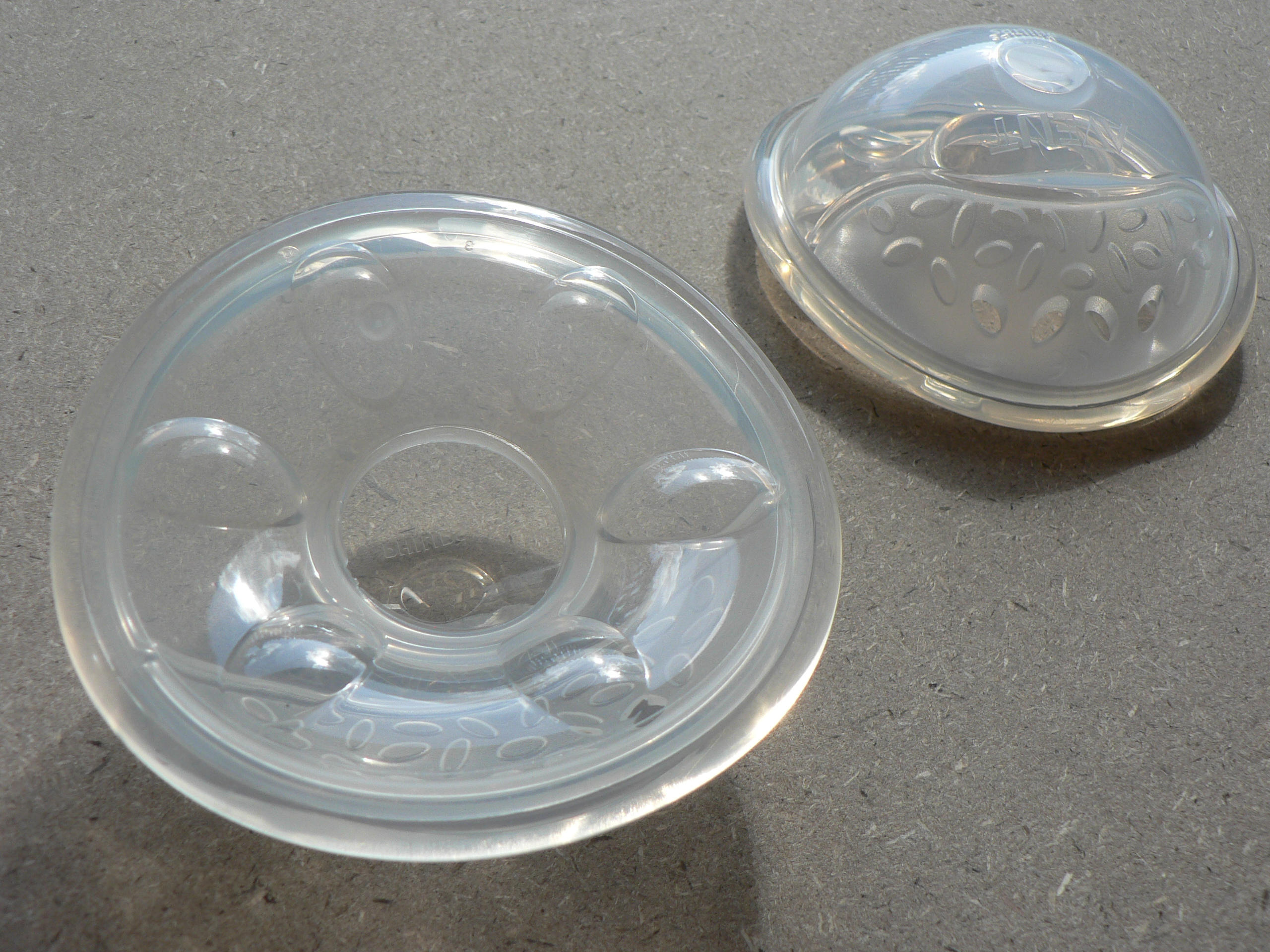 breast shell for breastfeeding mothers: collects excess milk from idle breast